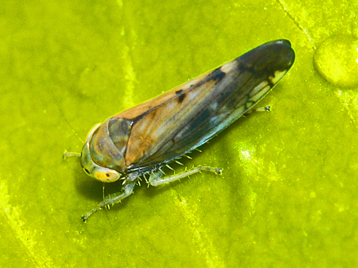 Anoplotettix fuscovenosus. Genova, Italy